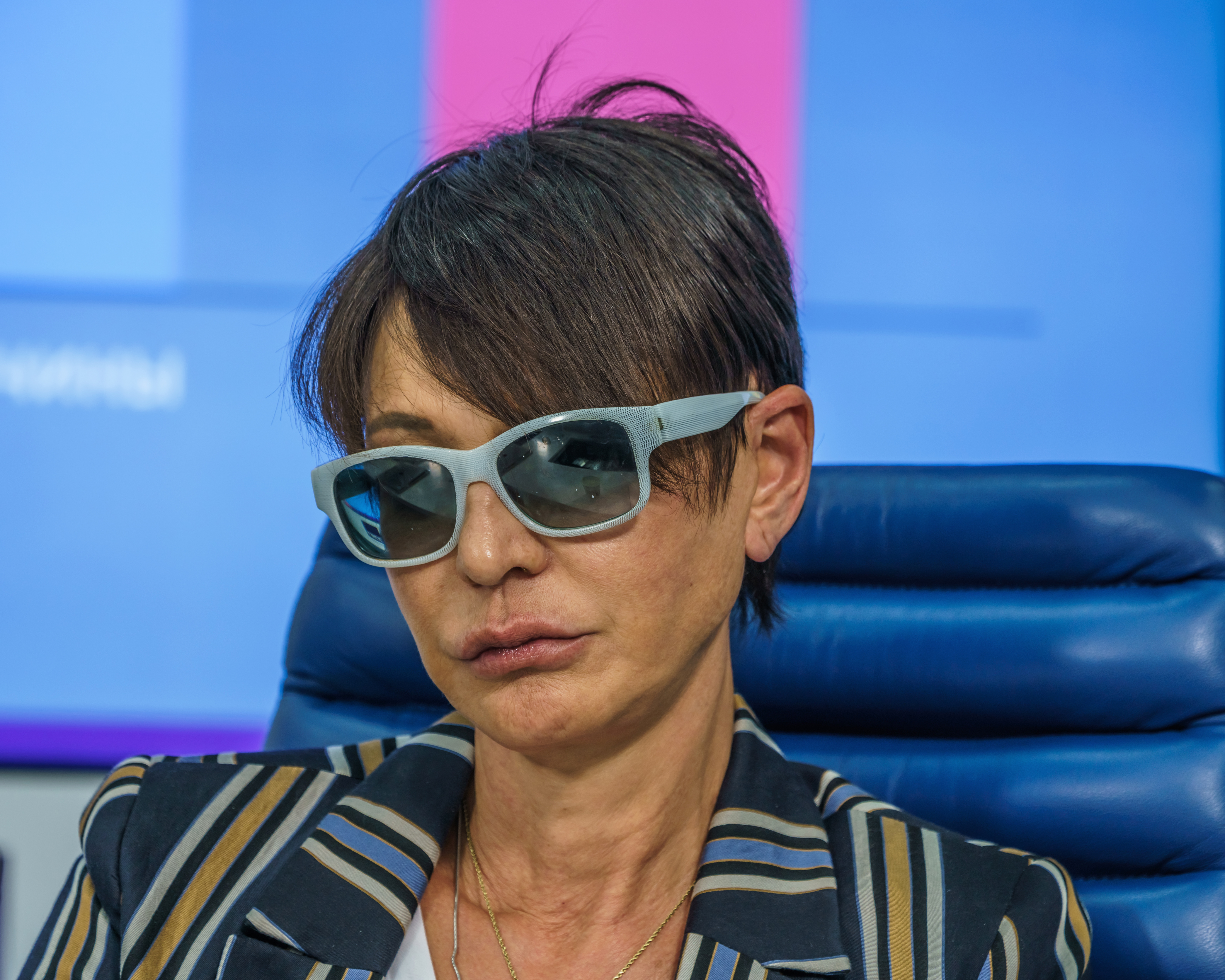 Irina Hakamada, a former Russian politician